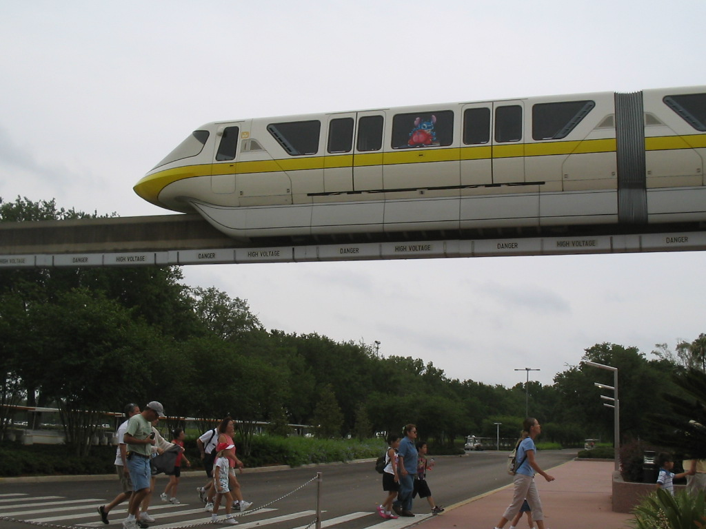 Monorail Disney World, Orlando, May 2005